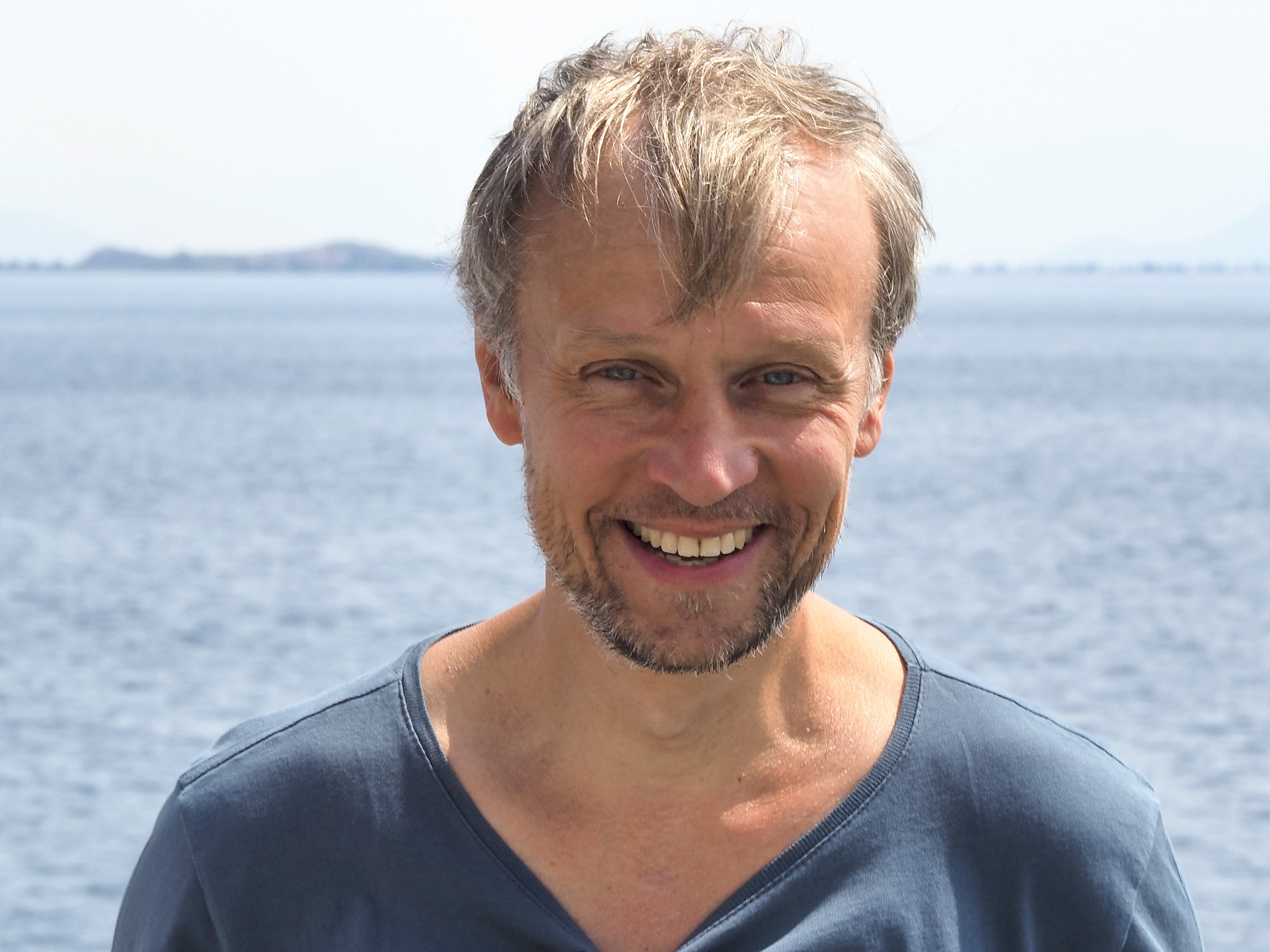 Dny v Crkvici a okolí. Trpanj a trajekt do Ploče.